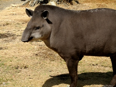 Photo by Whaldener Endo Year: 2006 Description: Brazilian Tapir (Tapirus terrestris)